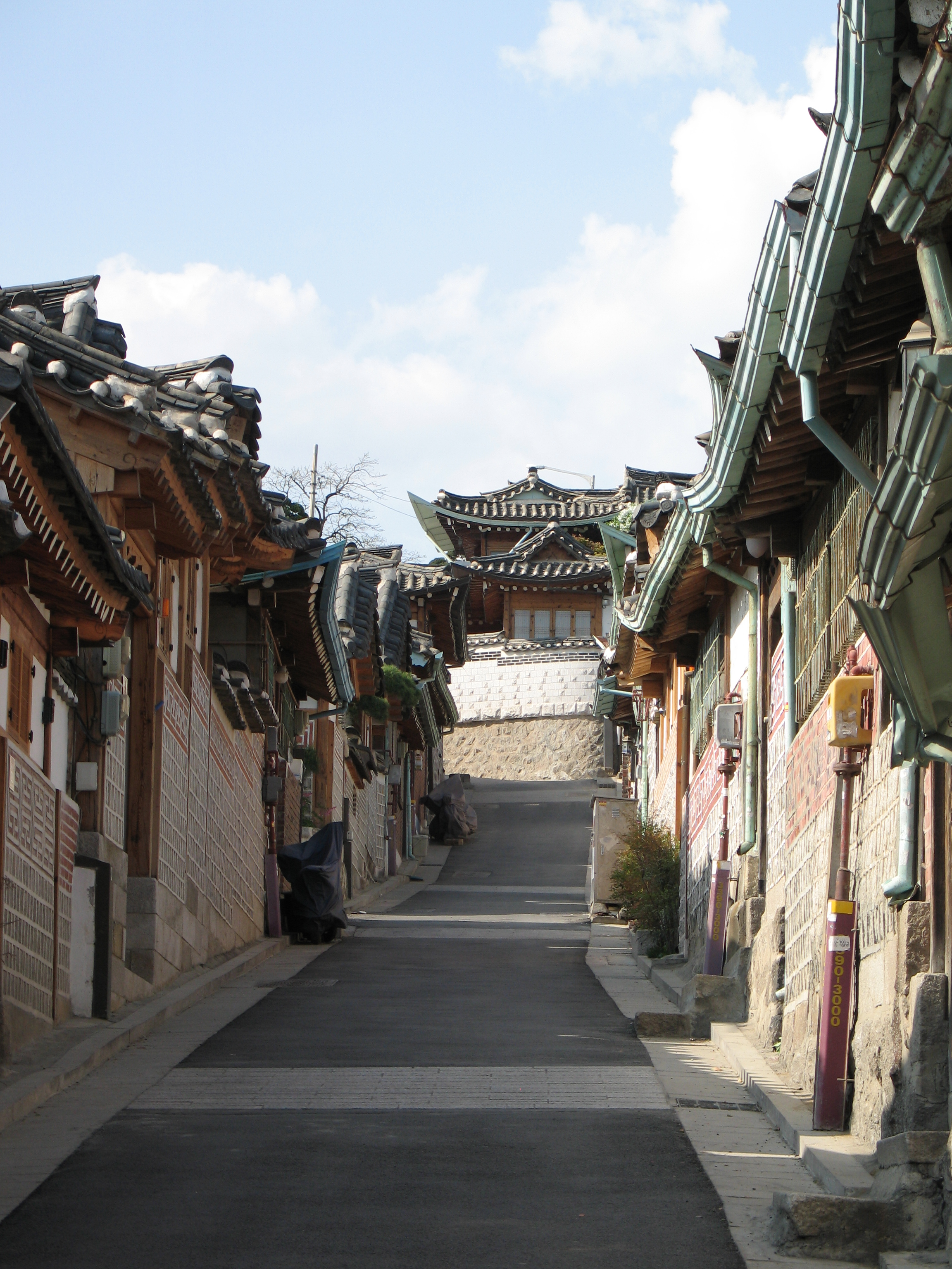 Bukchon Hanok Village in Jongno-gu, Seoul, South Korea